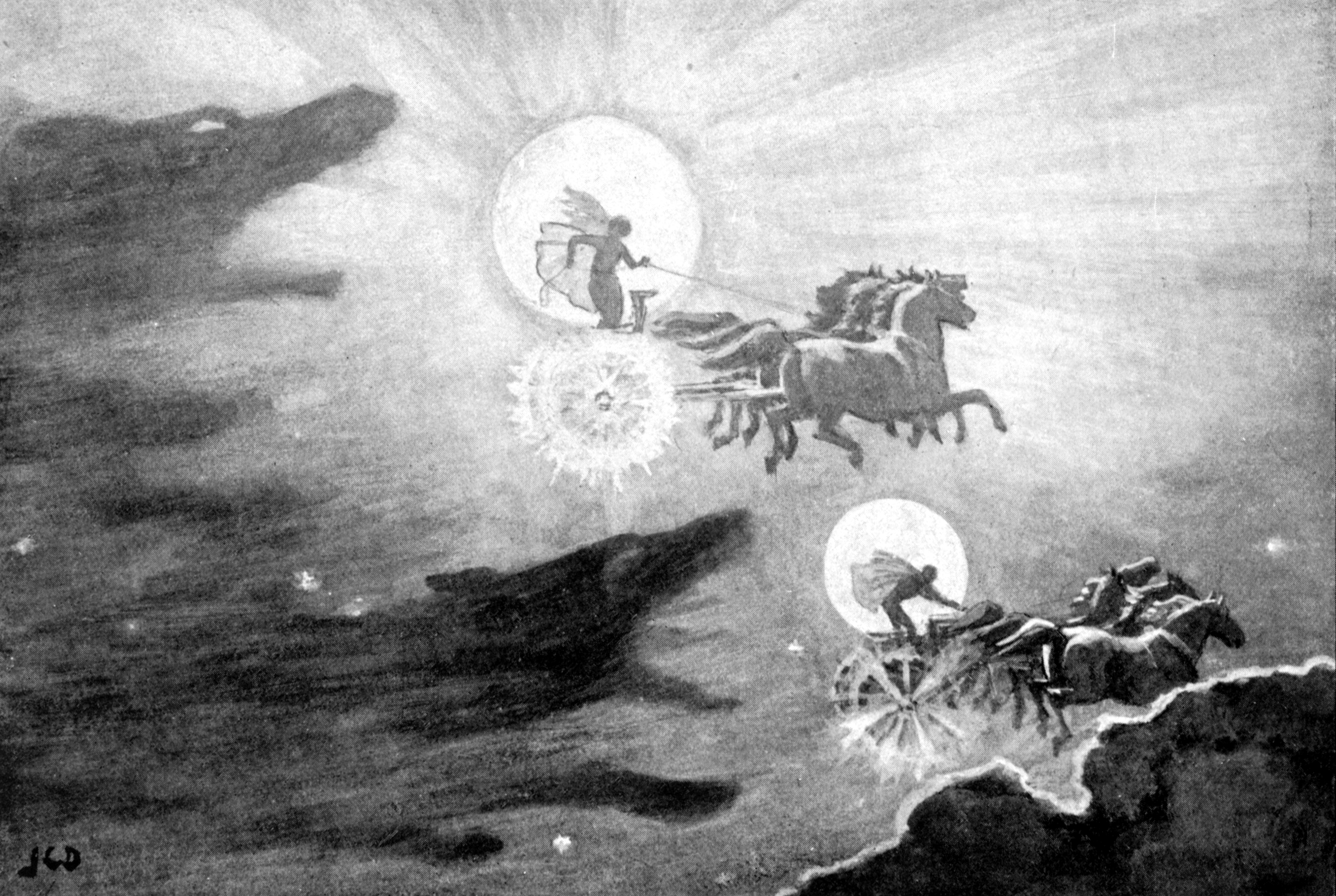 The Wolves Pursuing Sol and Mani (the title given to the work in the list of illustrations on page vii)